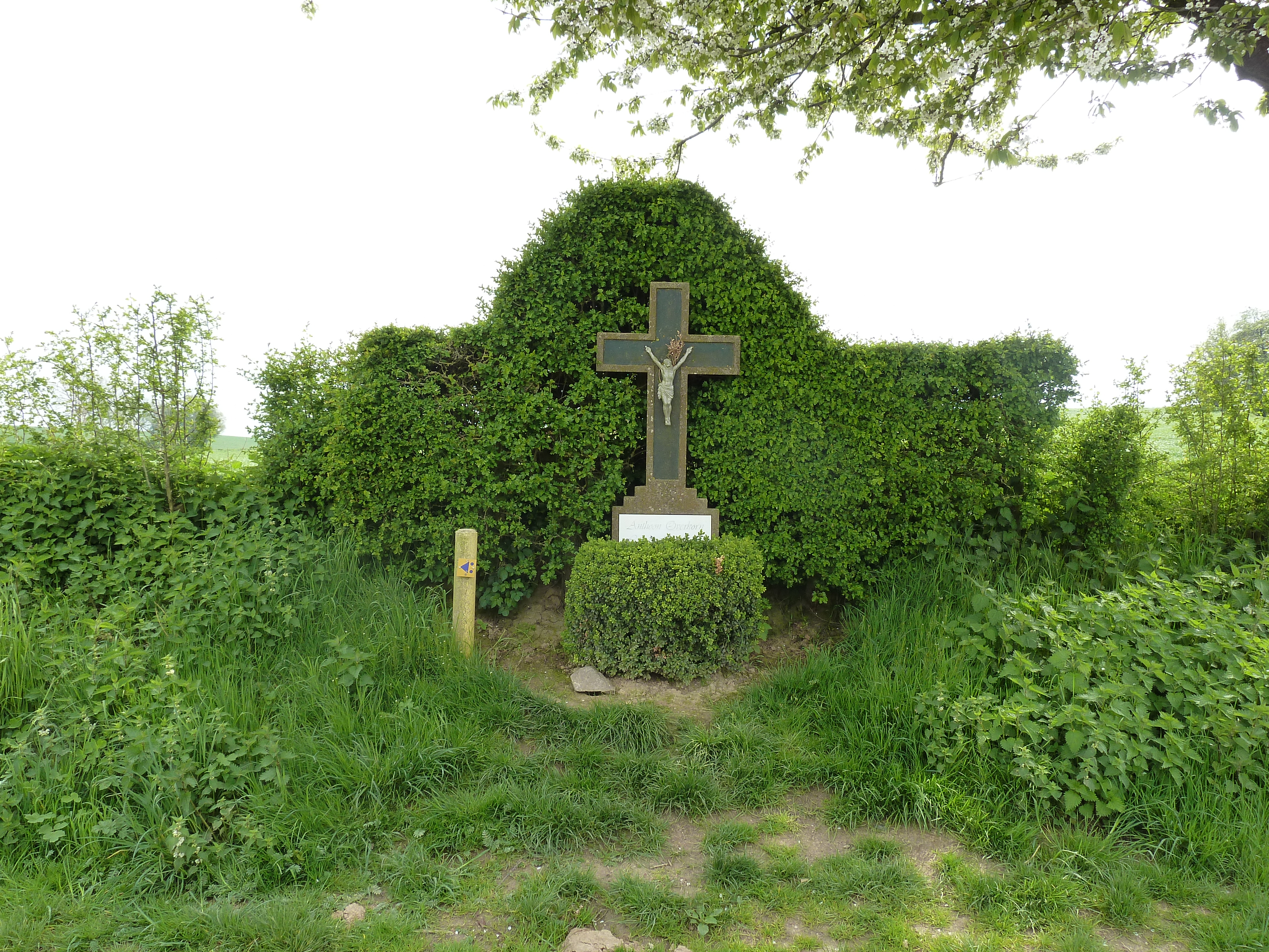 Bokkenrijderskruis, Termaar/Bruisterbosch, Eijsden-Margraten, Limburg, Netherlands